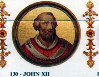 Portraits of Pope John XII in the Basilica of saint Paul Outside the Walls, Rome